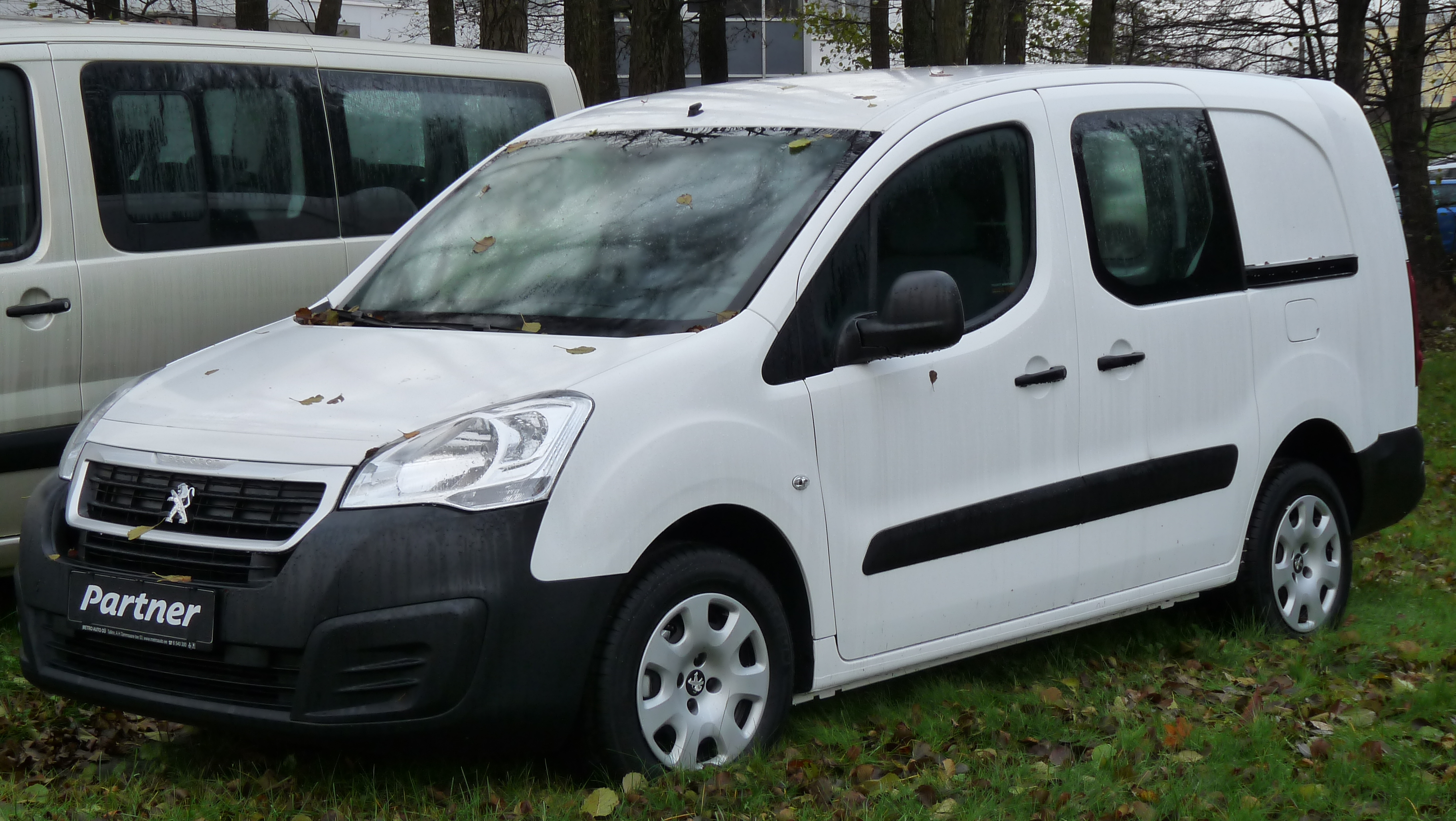 Peugeot vehicle in Tallinn, Estonia